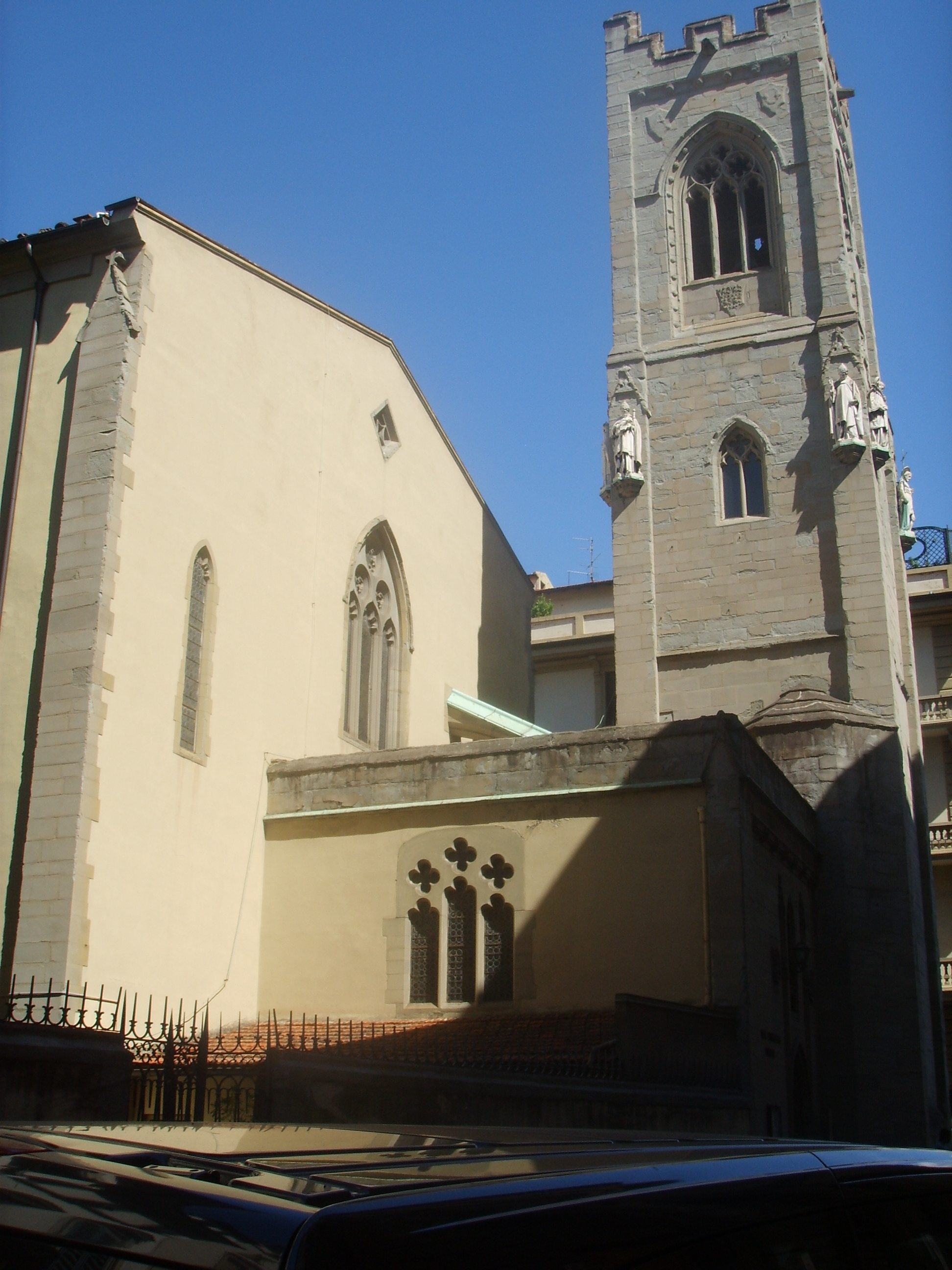 Chiesa Valdese, Trinity Church in Florence, Italy